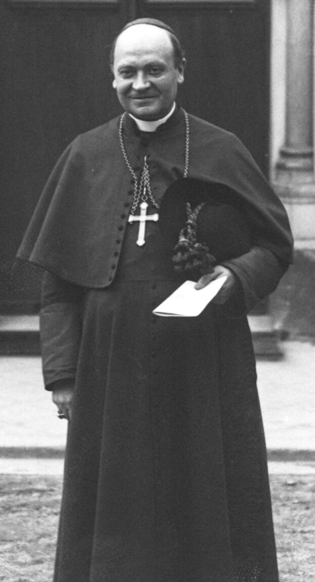 French cardinal and archbishop of Paris Léon-Adolphe Amette (1850-1920)